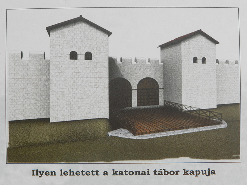 reconstruction of the east gate